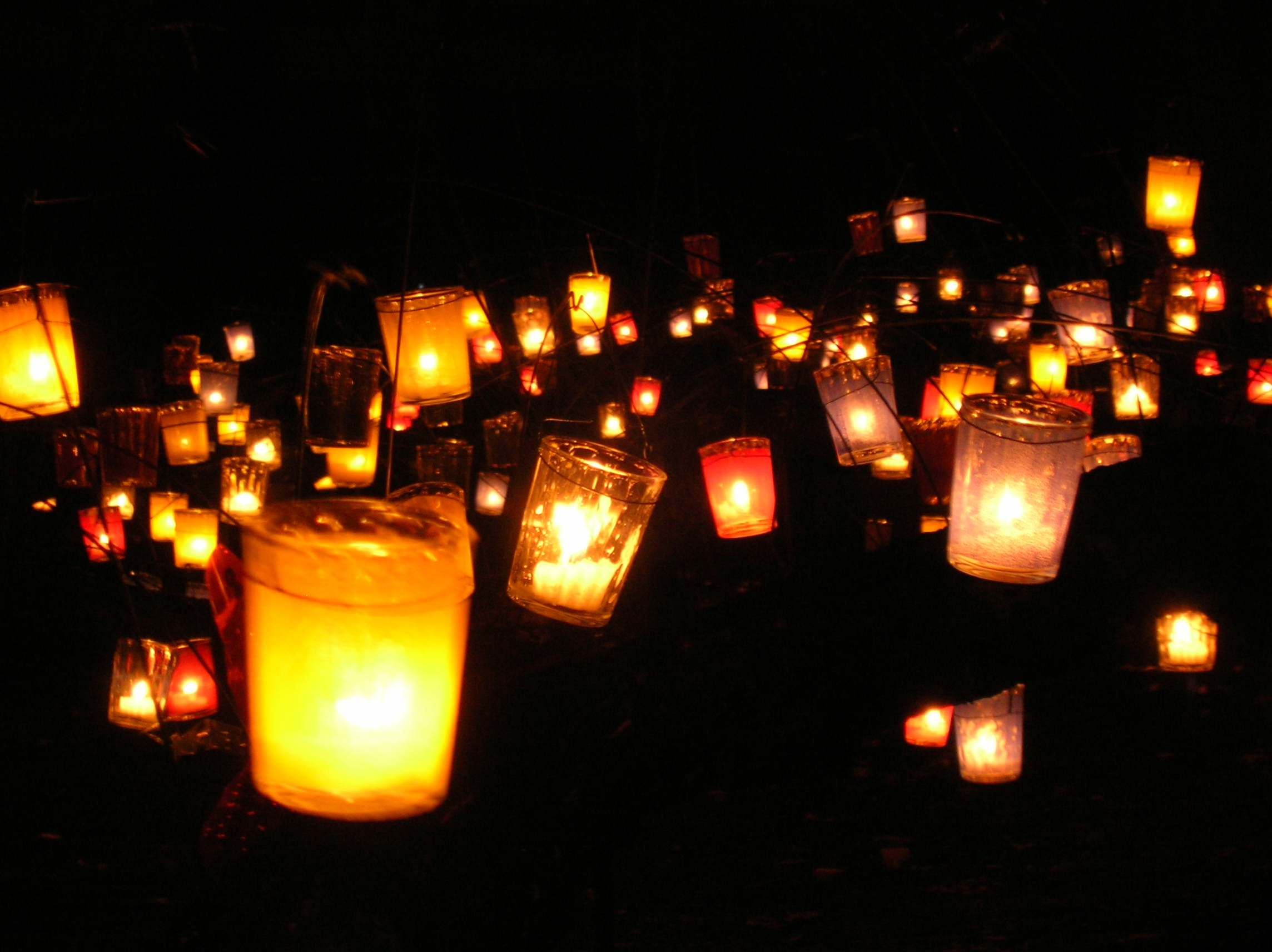 Fête des Lumières 2006